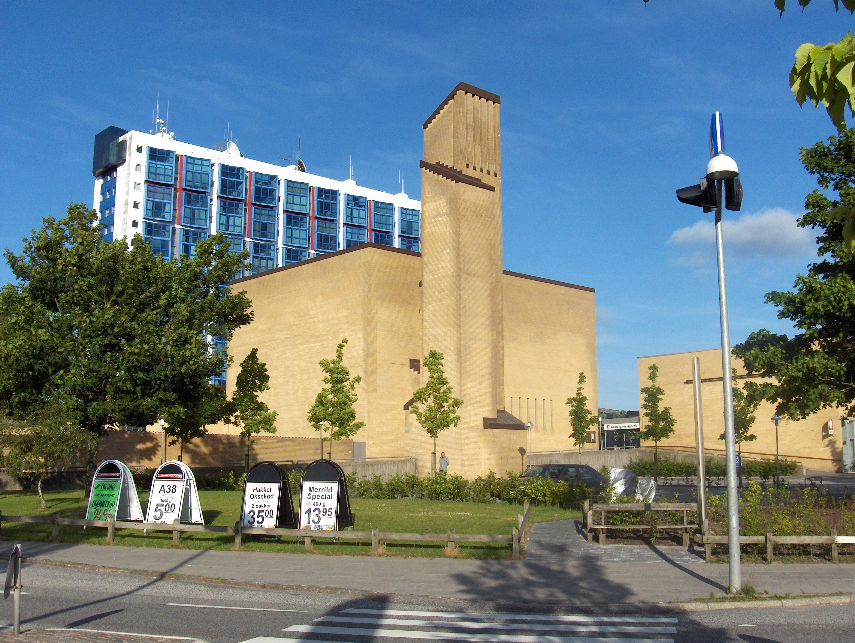 The Church "Hans Egedes Kirke" in Aalborg, Denmark